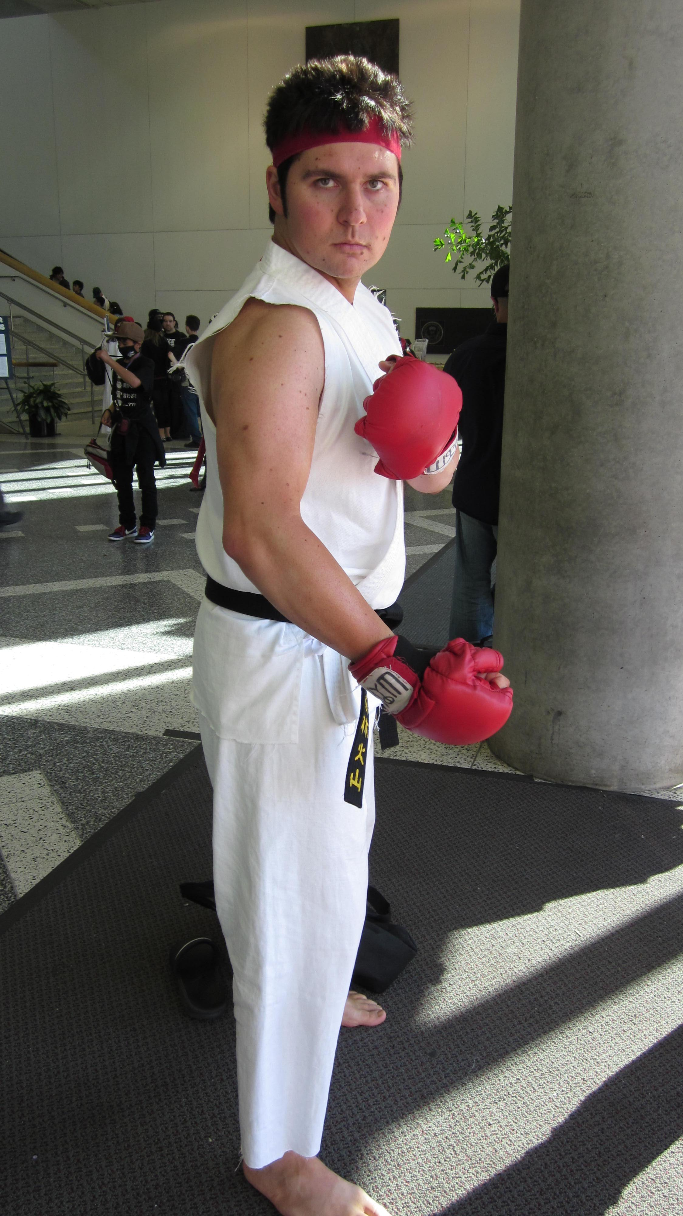 A cosplayer portraying Ryu from Street Fighter at FanimeCon 2010 in San Jose, California.